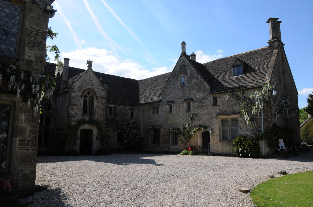 Chavenage House has been built over the centuries ranging from the late 16th century through to the turn of the 20th century. The house has been used in many TV productions and is also a location for weddings. The house is open to the public on selective days. The principal guide is the owner whose anecdotal tour is memorable and entertaining.